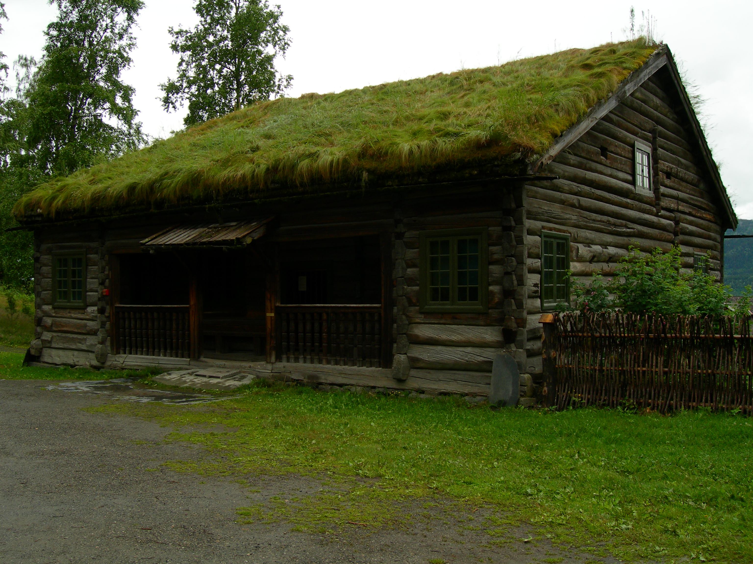 A picture I took whilst in Norway—unfortunately, I can't say much other than that as I can't remember where (besides that it was part of a museum) nor precisely of what it was I took a picture of. An interesting-looking building (home, perhaps?) at any rate.